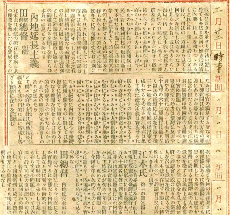 田健治郎 (1919-23); 1921年02月